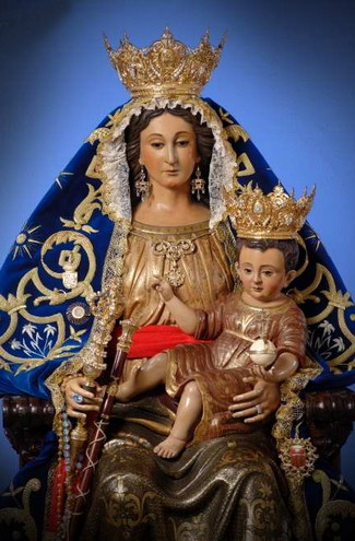 frente